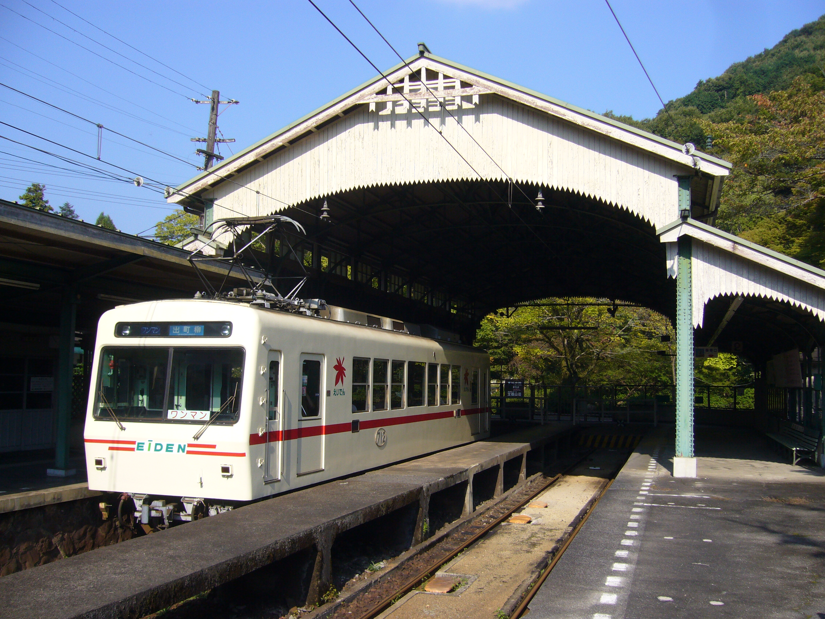 Yase Hieizanguchi sataion of Eizan Electric Railway Eizan Main line. in Sakyo ward, Kyoto City. Overview of the station from the track two. Trains with Deo 700 to Demachiyanagi is in the track one.